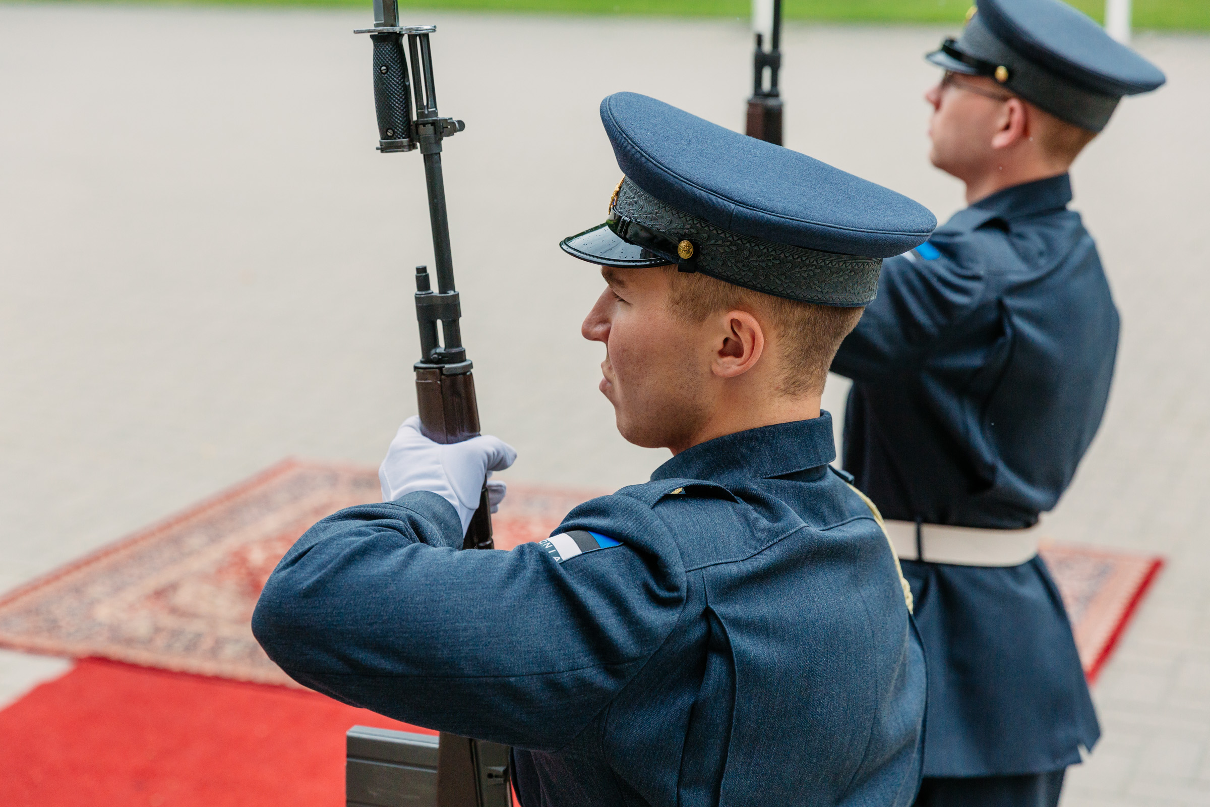 European Council President Donald Tusk meets with Estonian President Kersti Kaljulaid